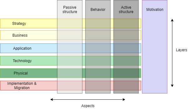 Depiction of Archimate 3.0.1 Core Framework.